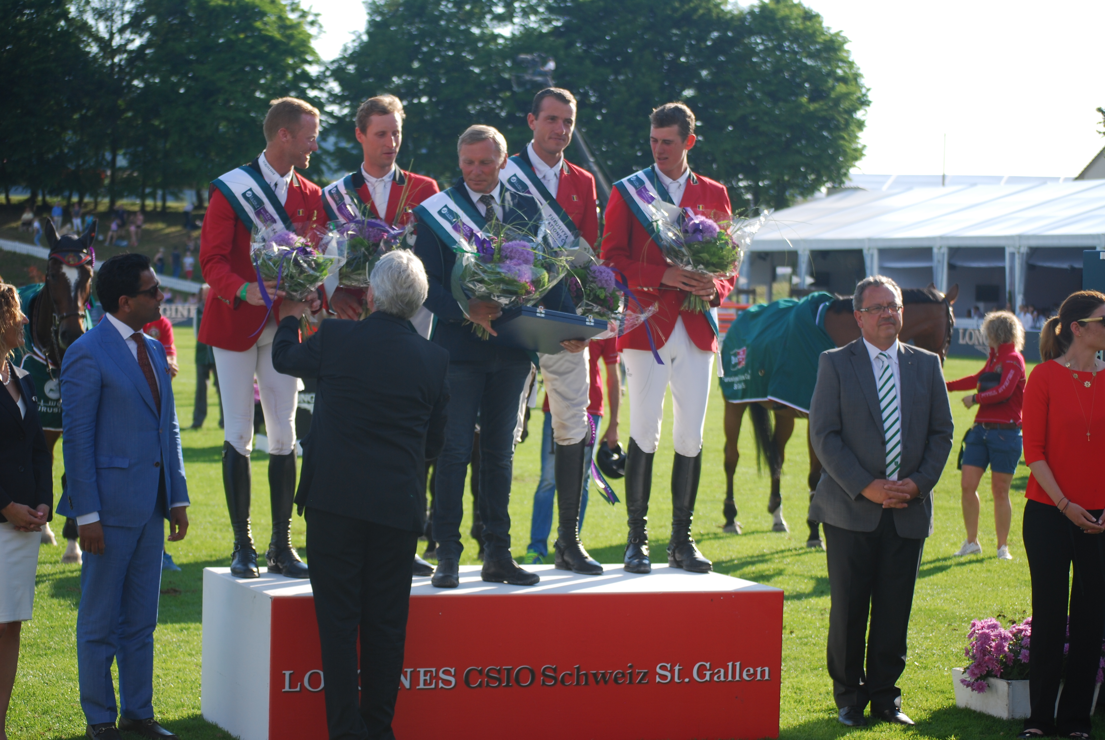 The Belgian Team winning the CSIO FEI Nations Cup in St. Gallen 2015